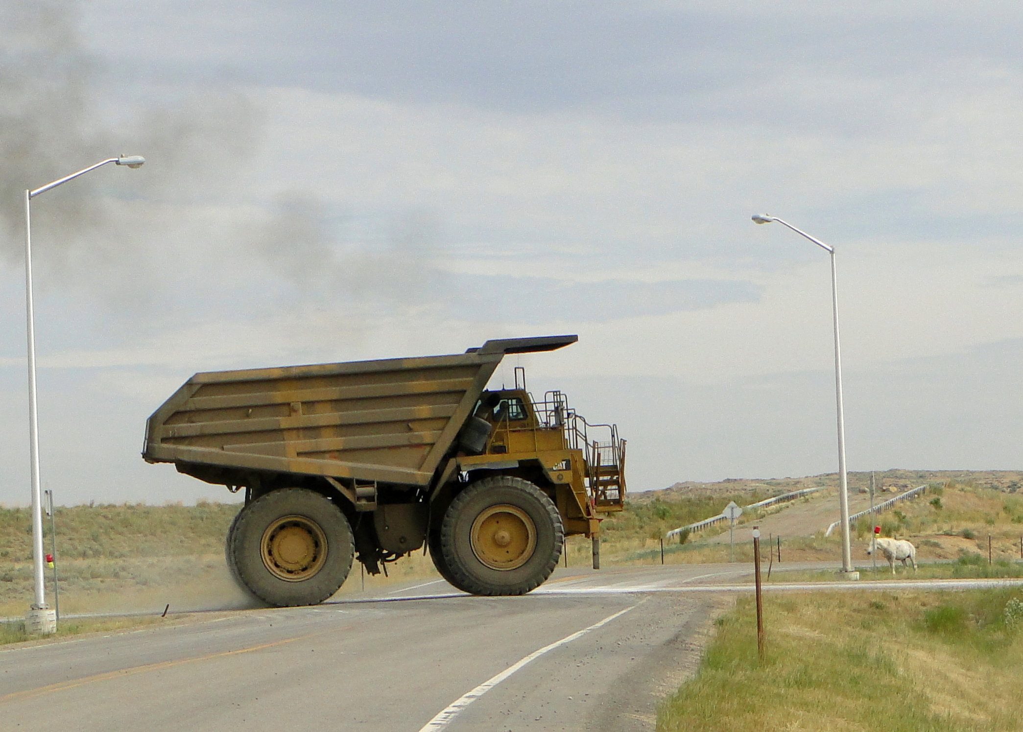 Coal hauler at the Jim Bridger Power Plant near Point of Rocks, Wyo. Notice the wild horse. The power plant It is built atop a coal mine that powers it's steam generators.